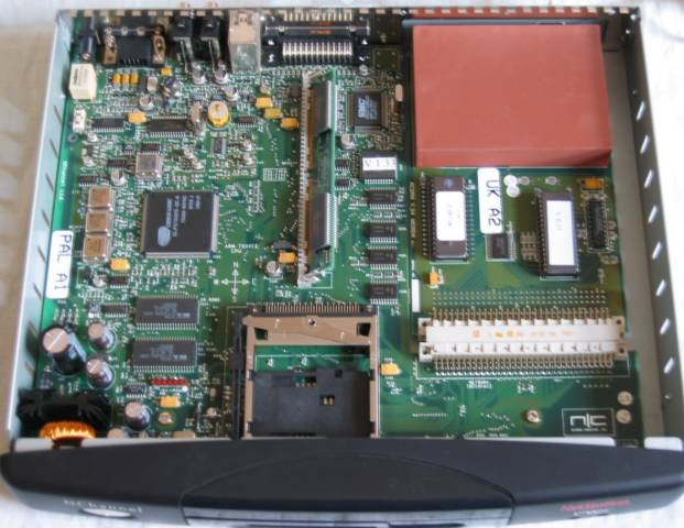 Netproducts NetStation with top cover removed.You can see the Modem on the right, the SmartCard reader in the middle front, the 8MB EDO DIMM in the middle, the large square ARM7500FE CPU on the left middle with the 2 NC OS 1.06 ROMs below. Along the back you can see the I/O ports. SpecificationSerial No.NS1-MUKP48E-000146-A1A2Unique identityn/aMotherboardNC 1 Main BoardReference DesignMotherboard part no.2103,000 Issue 1CPU TypeARM7500FECPU ModelCL-PS7500FE-QC-ACPU Clock40MHzMemory ControllerARM7500 (IOMD)Memory8MB EDO DIMMMemory Clock16MHzVideo ControllerARM7500 (VIDC20)NICAcorn V34 modem rev 1OSNCOS 1.06OS Date8-Nov-96